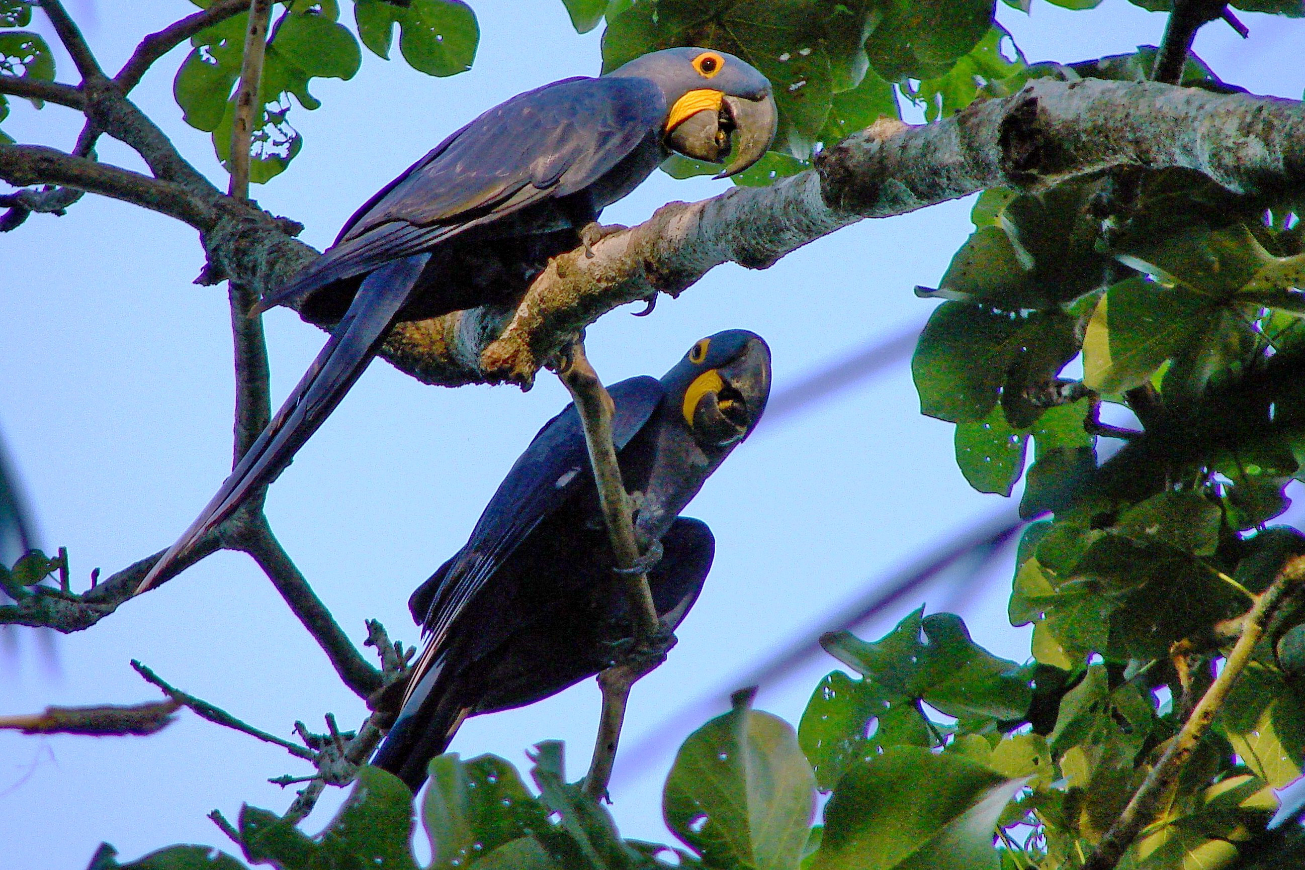 Blue Macaws in Pantanal